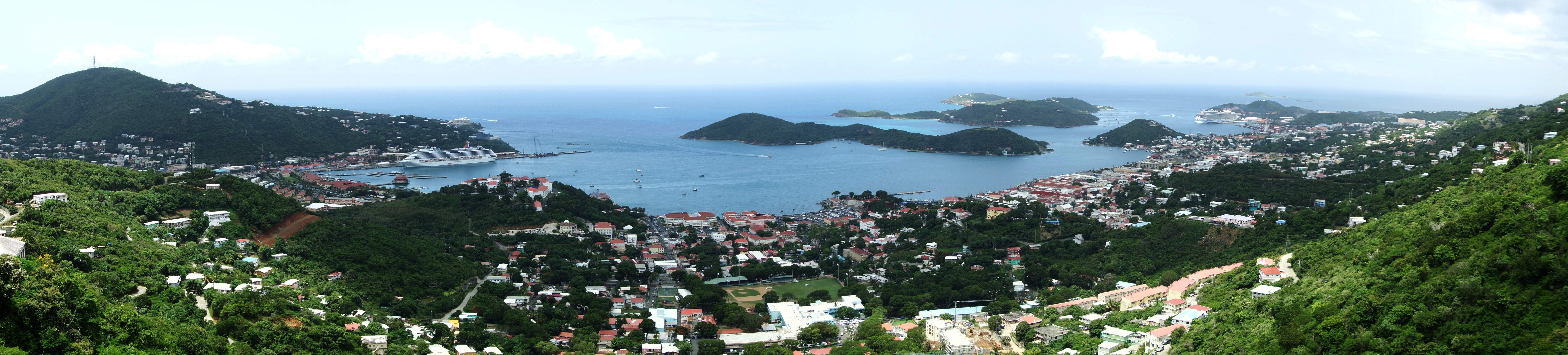 Panoramic view of Charlotte Amalie on St. Thomas in the US Virgin Islands